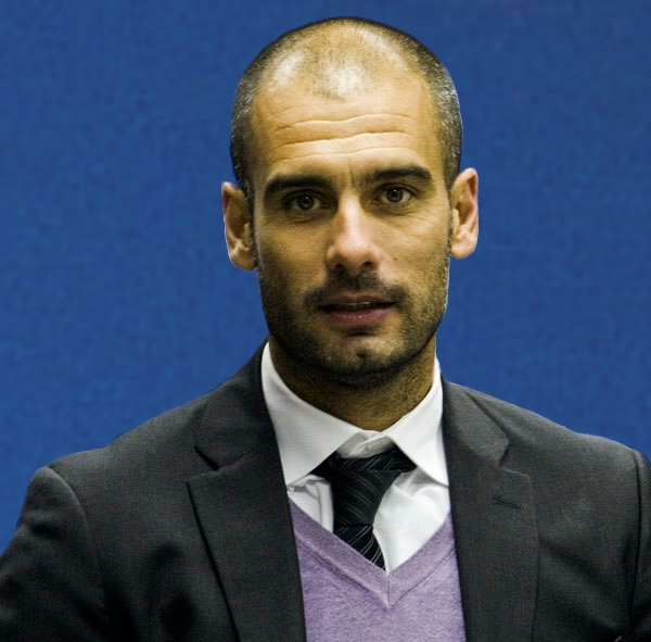 The Spanish football manager Josep (Pep) Guardiola